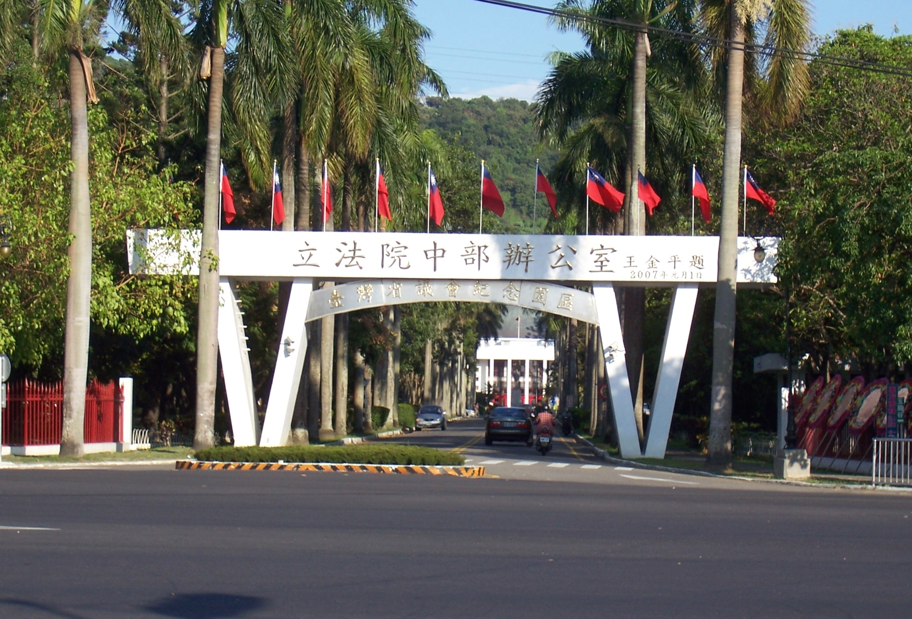 The Service Center in Central and Southern Taiwan of Legislative Yuan. It located in Wufong,Taichung,Taiwan.